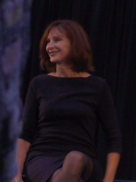 American actress Gates McFadden at Toronto Sci-Fi Expo.